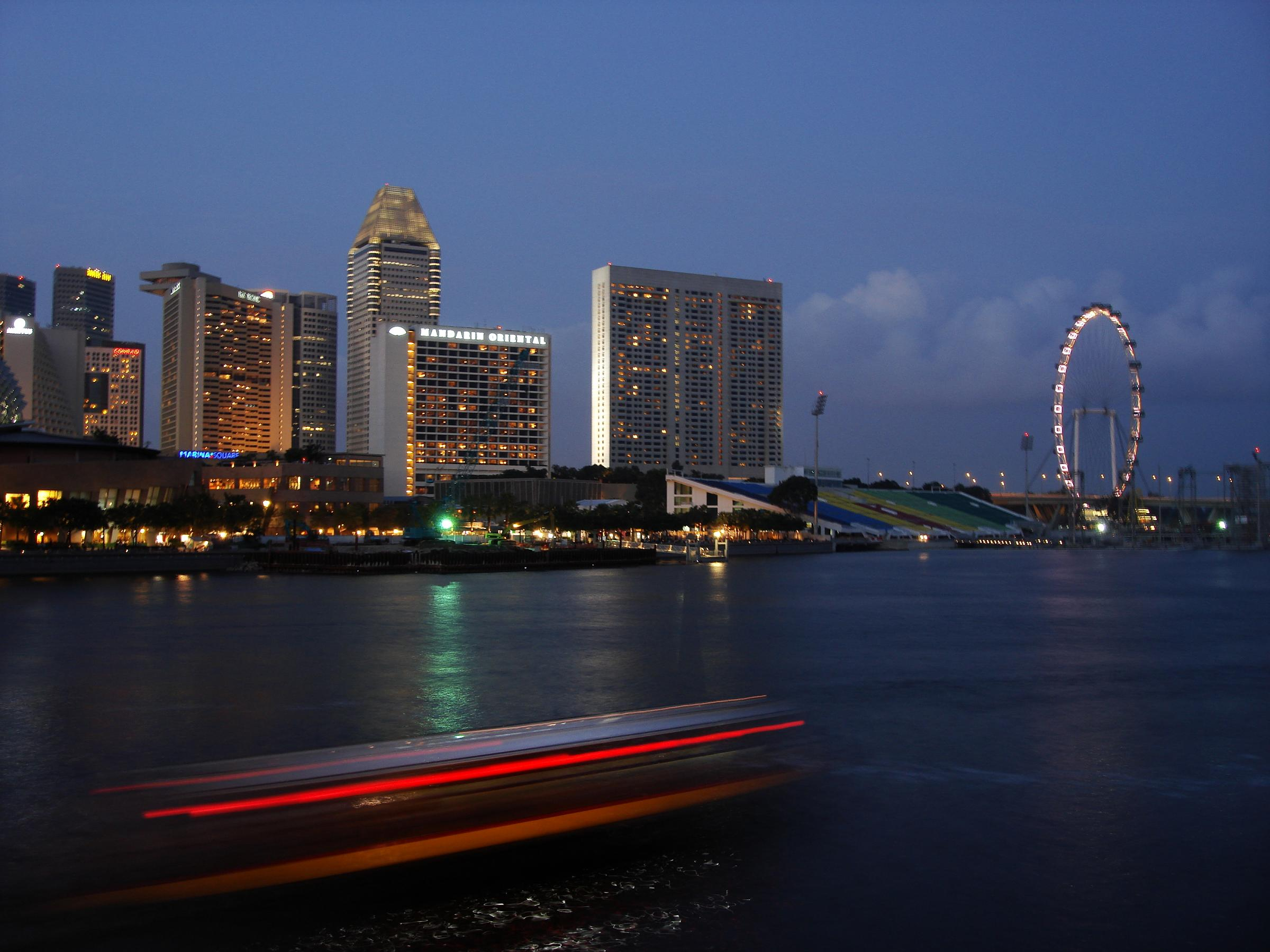 Marina Bay and the Singapore Flyer.